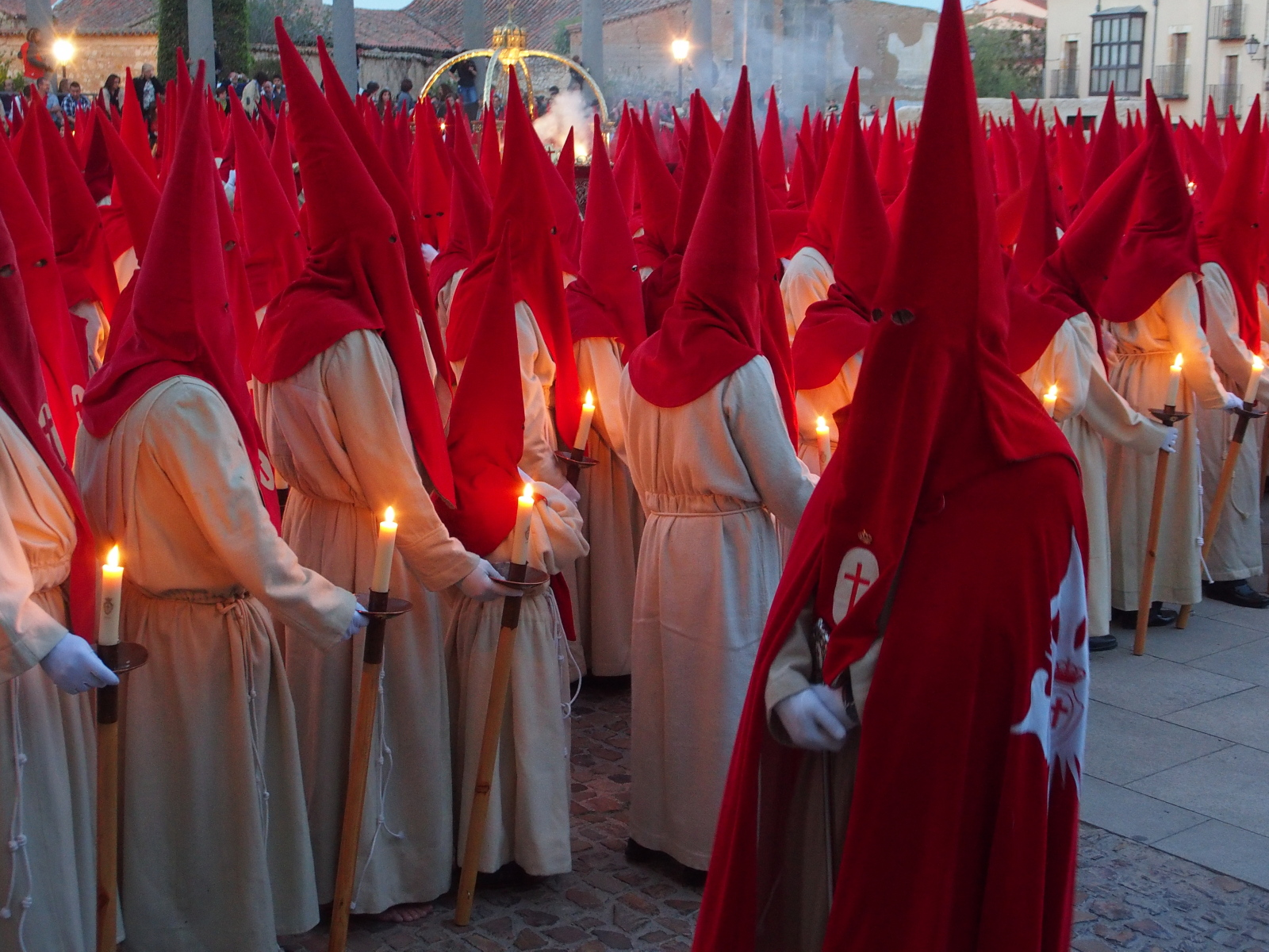 Parade of the religious brotherhood Real Hermandad del Santisimo Cristo de las Injurias (Zamora, Spain, Holy Week 2014)